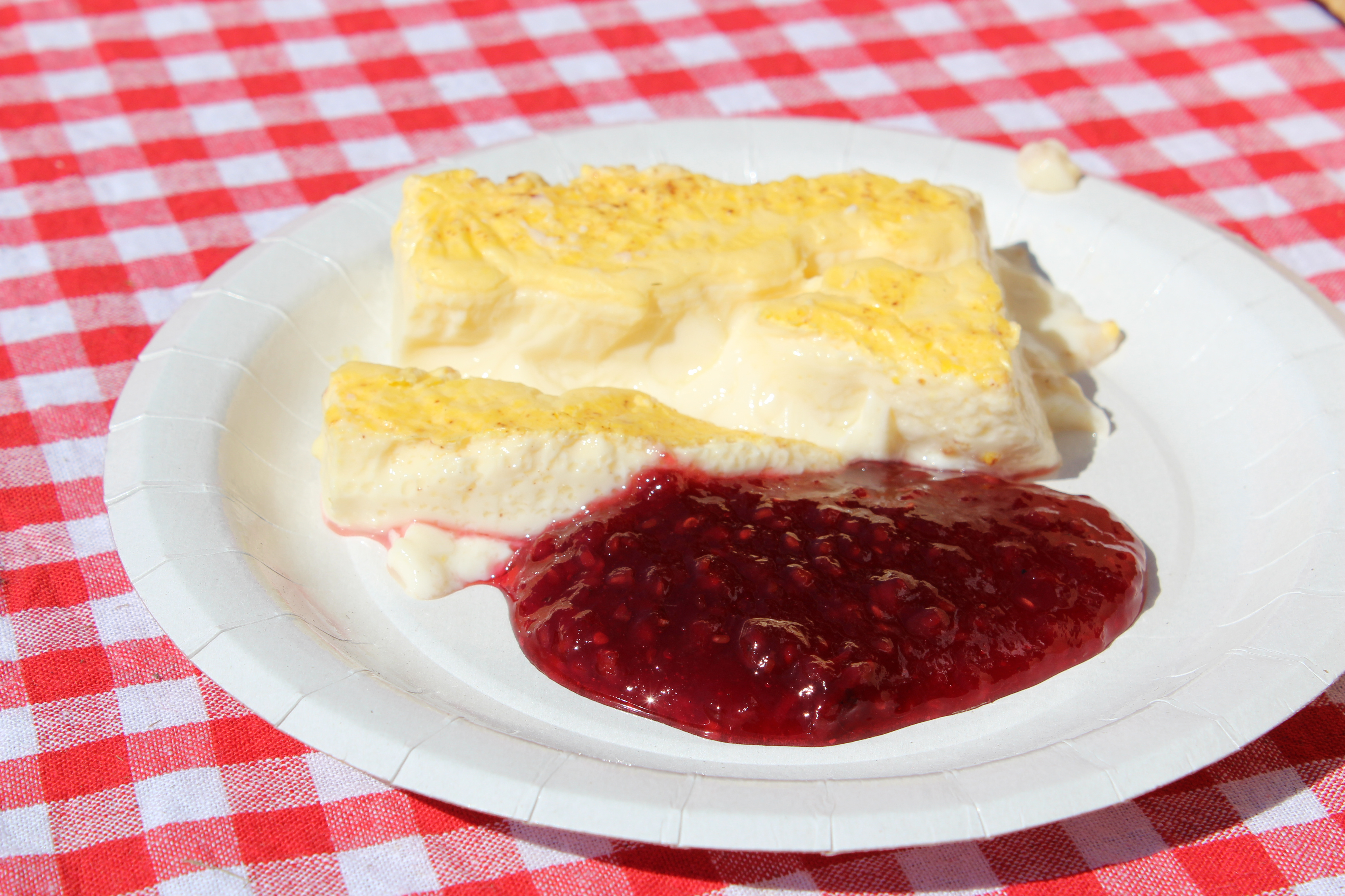 Kalvdans. Boiled spiced protein rich colostrum from cow in oven.